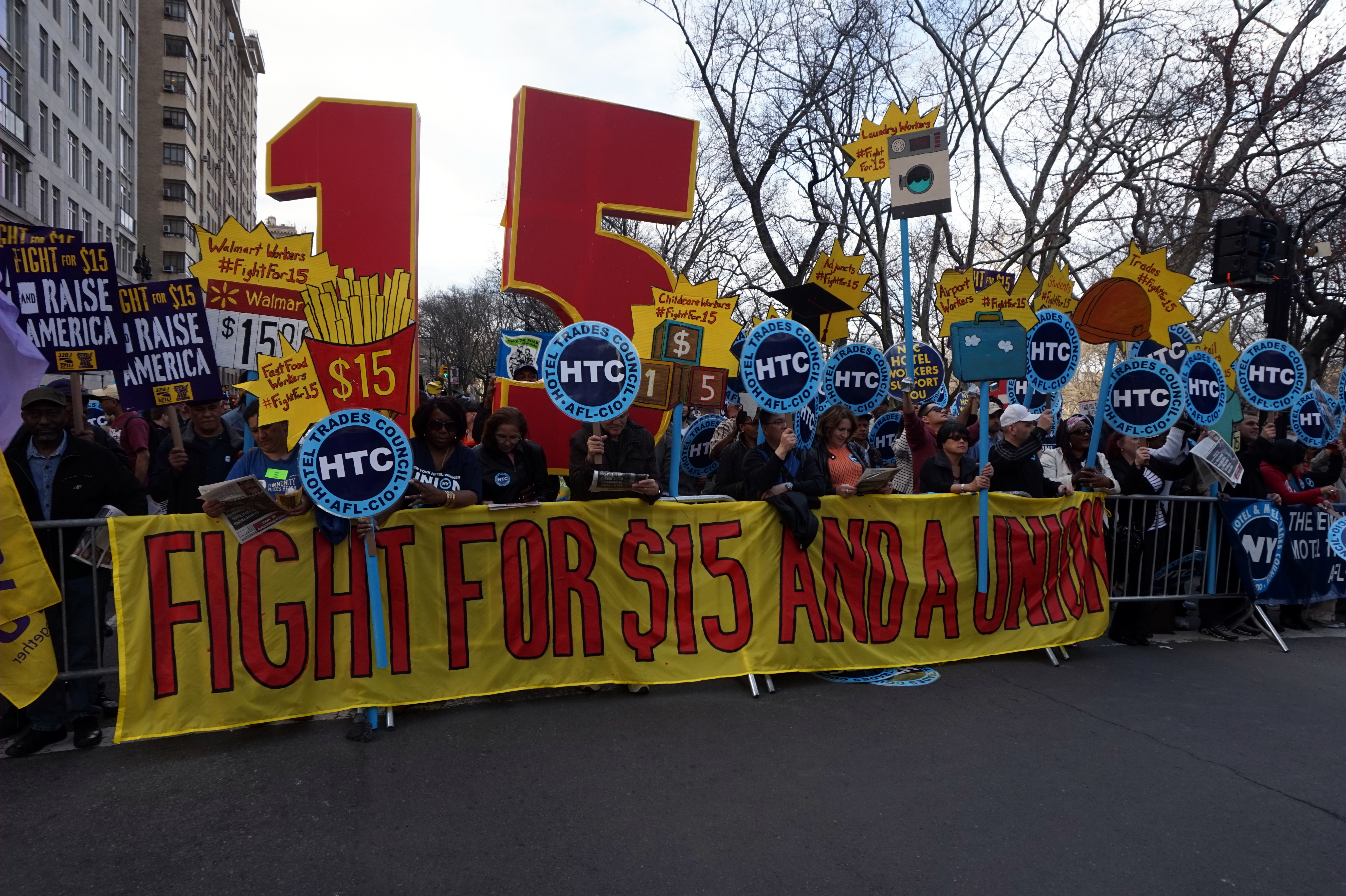 NYC Rally and March to raise the minimum wage in America.